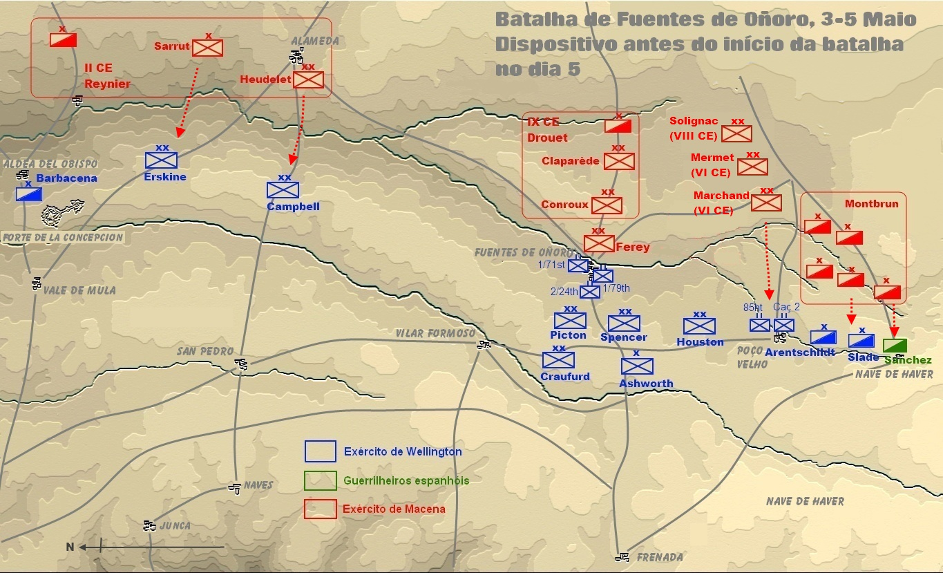 Map depicting the device of Anglo-luso and French on May 5 before the Battle of Fuentes de Onoro.